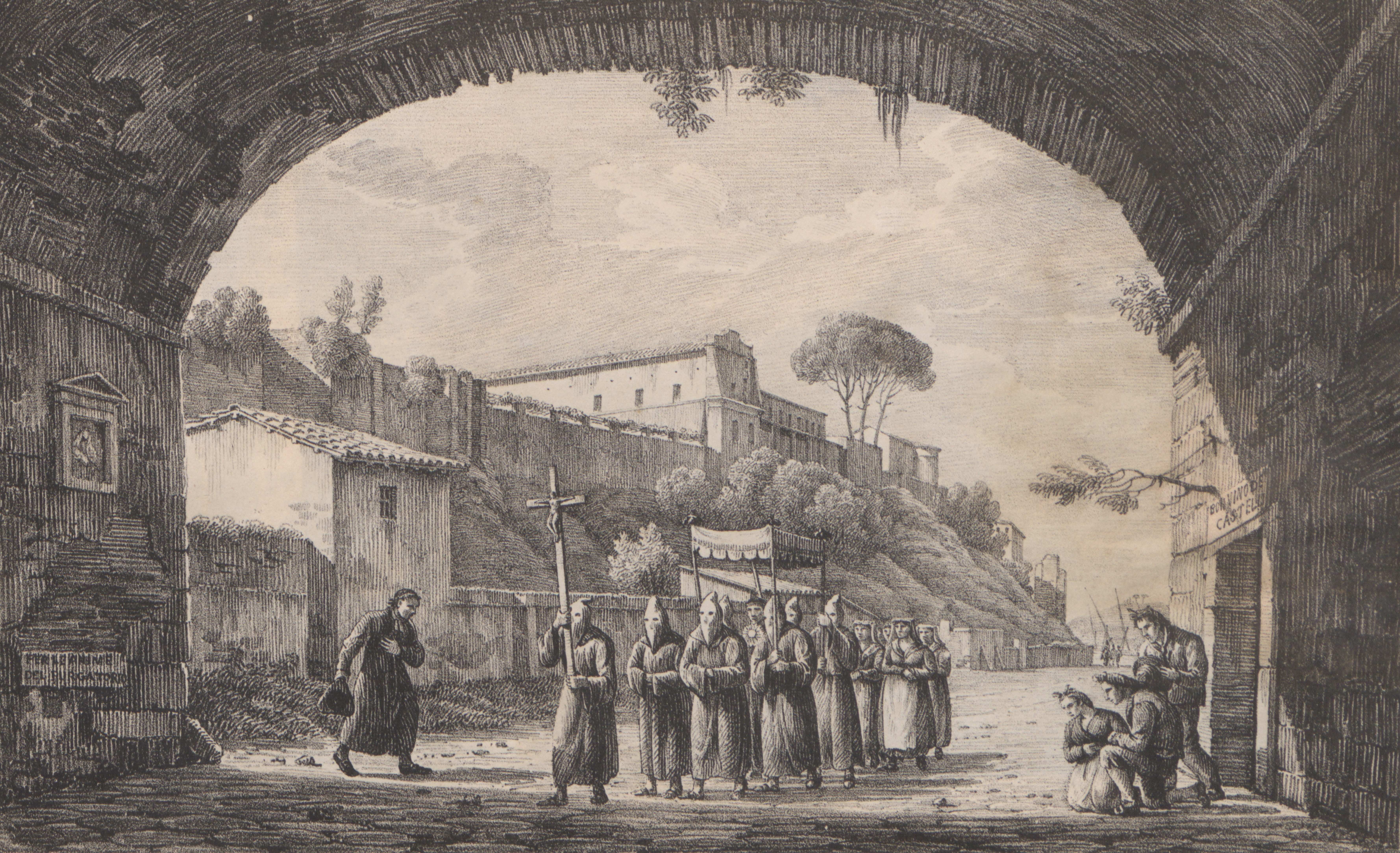 Aventine Hill, from Twenty-four views of Italy, 1818